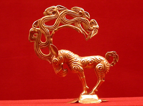 A gold sculpture from the Warring States period of China. Info provided by the museum: "Gold Monster, Warring States Period (475-221 BC). Excavated from Nalin Gaotu village, Shenmu County."